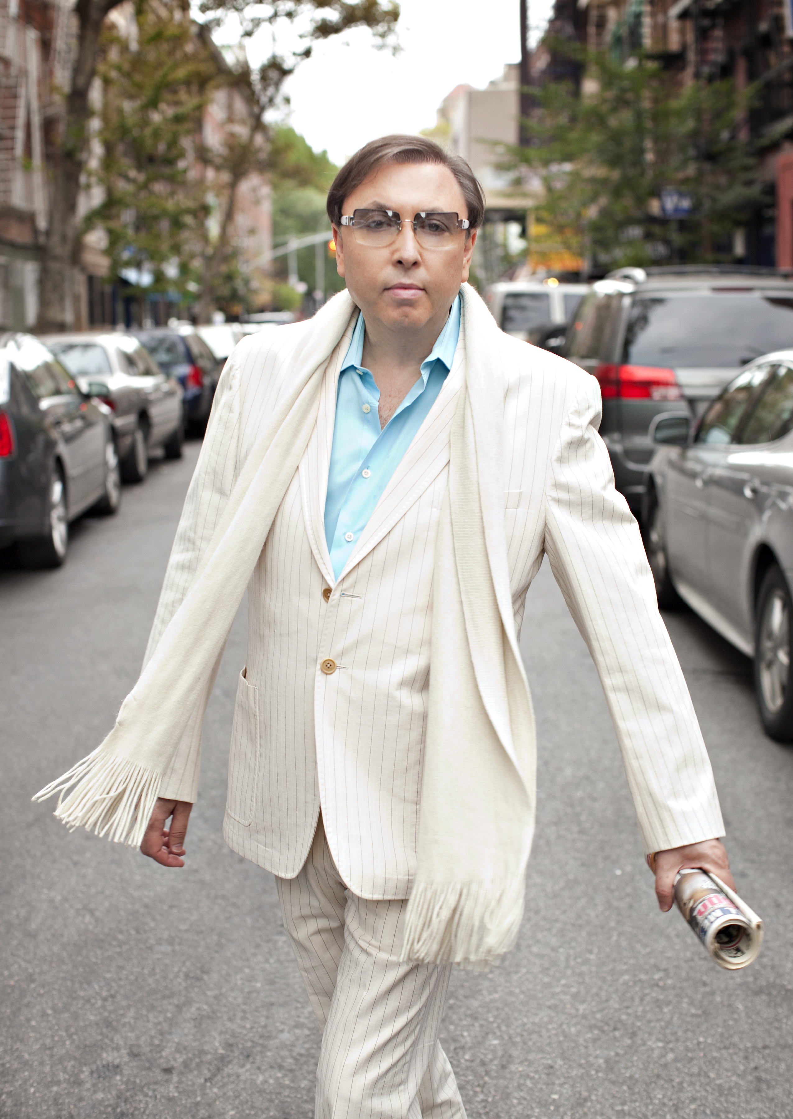 Oleg Frish